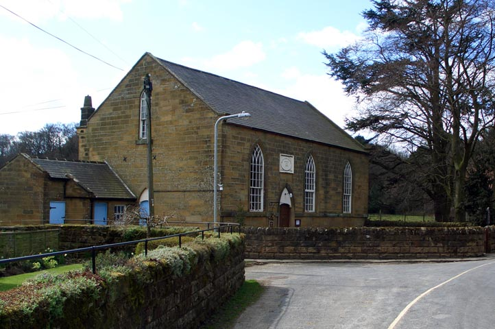 Wesleyan Methodist Chapel, Lealholm, North Yorkshire